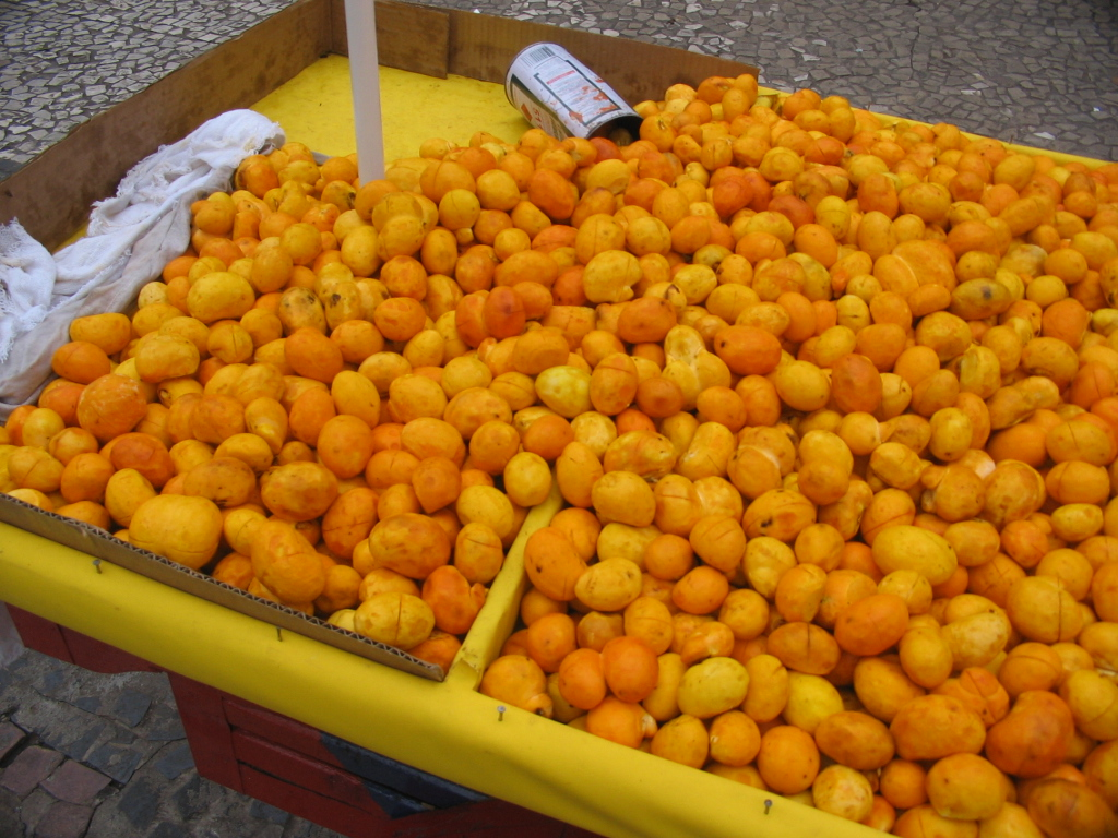 Pequi (Caryocar brasiliense) on the street markets of Cuiabá, Brasil.